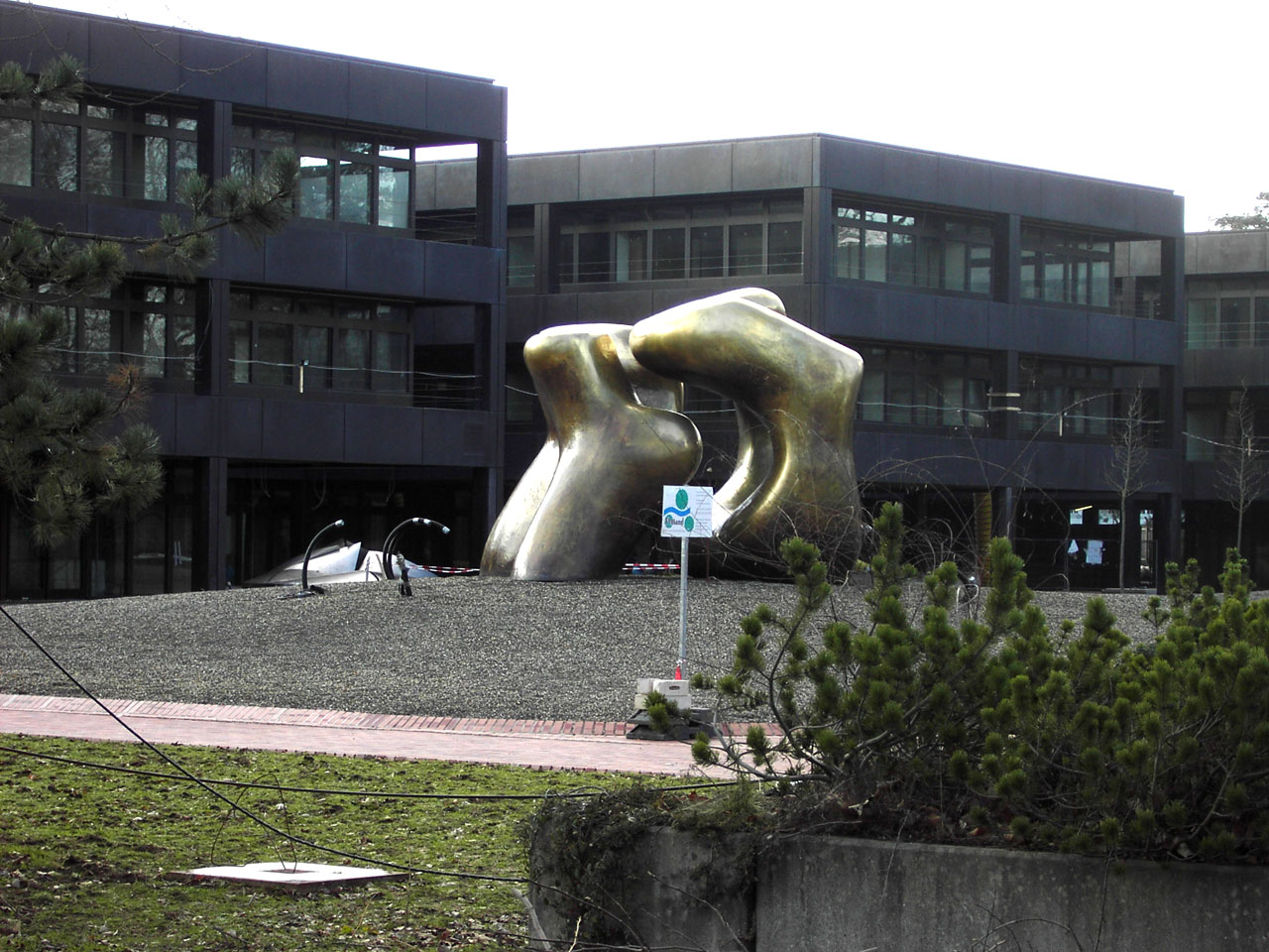 Seat of the Federal Ministry for Economic Cooperation and Development with the sculpture Large Two Forms from Henry Moore in Bonn. Formerly (until 1999) the building was used by the "Bundeskanzleramt" (Federal Chancellery). Afterwards the building was redeveloped before the Ministry moved to this building.